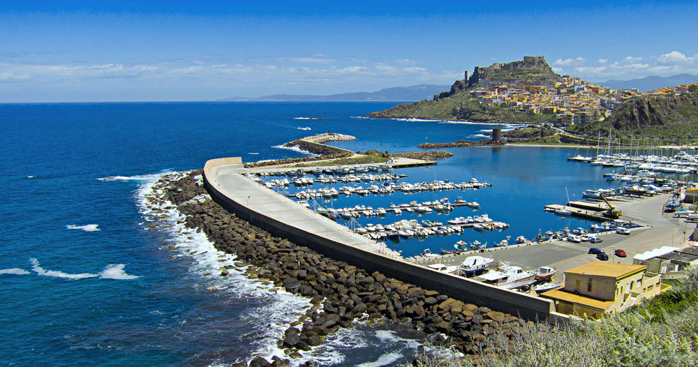 Castelsardo is a town and comune in Sardinia, Italy, located in the northwest of the island within the Province of Sassari, at the east end of the Gulf of Asinara.